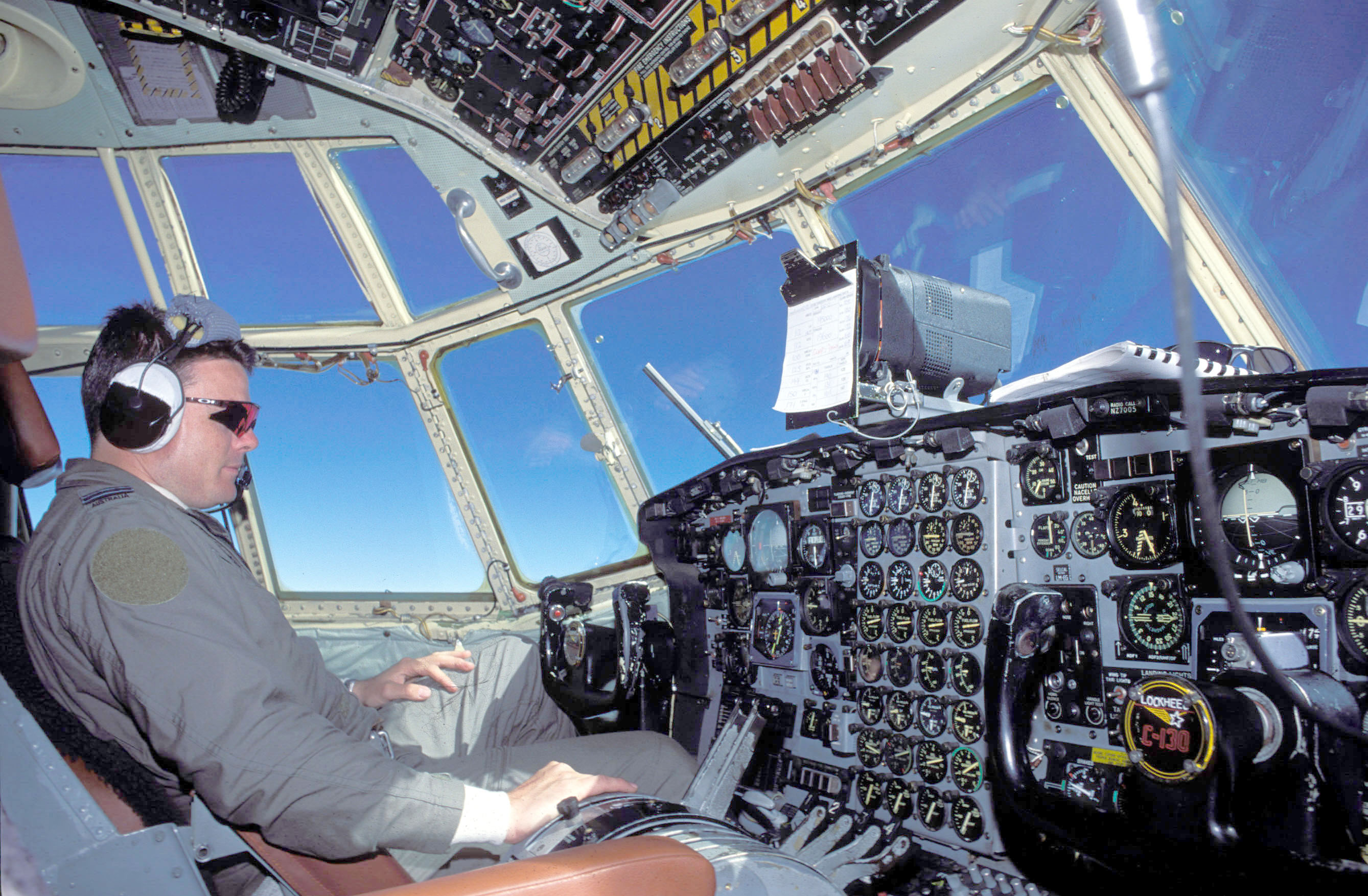 Cockpit of a Royal New Zealand Air Force Lockheed C-130 Hercules (serial number NZ7005)